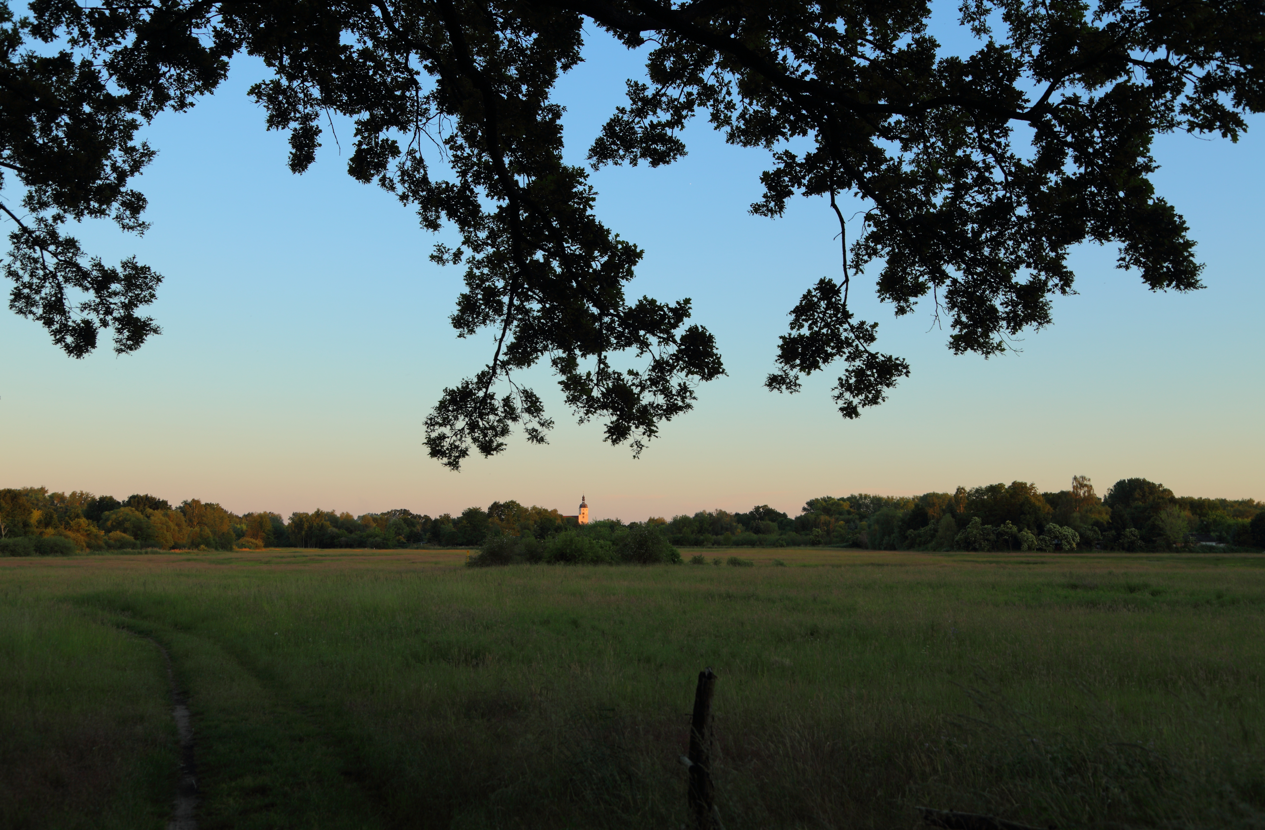 Meadows north of Lübben, Landkreis Dahme-Spreewald, Brandenburg, Germany.